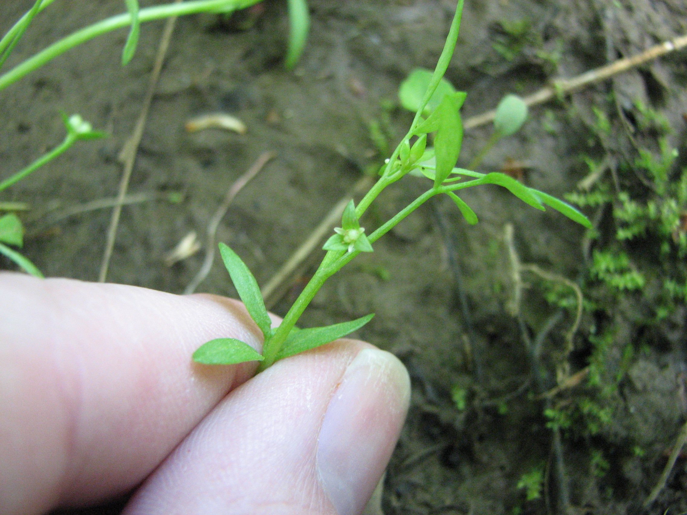 Floerkea proserpinacoides at Northern Community Park, Bordentown, New Jersey, USA. Taken during a Philadelphia Botanical Club trip.